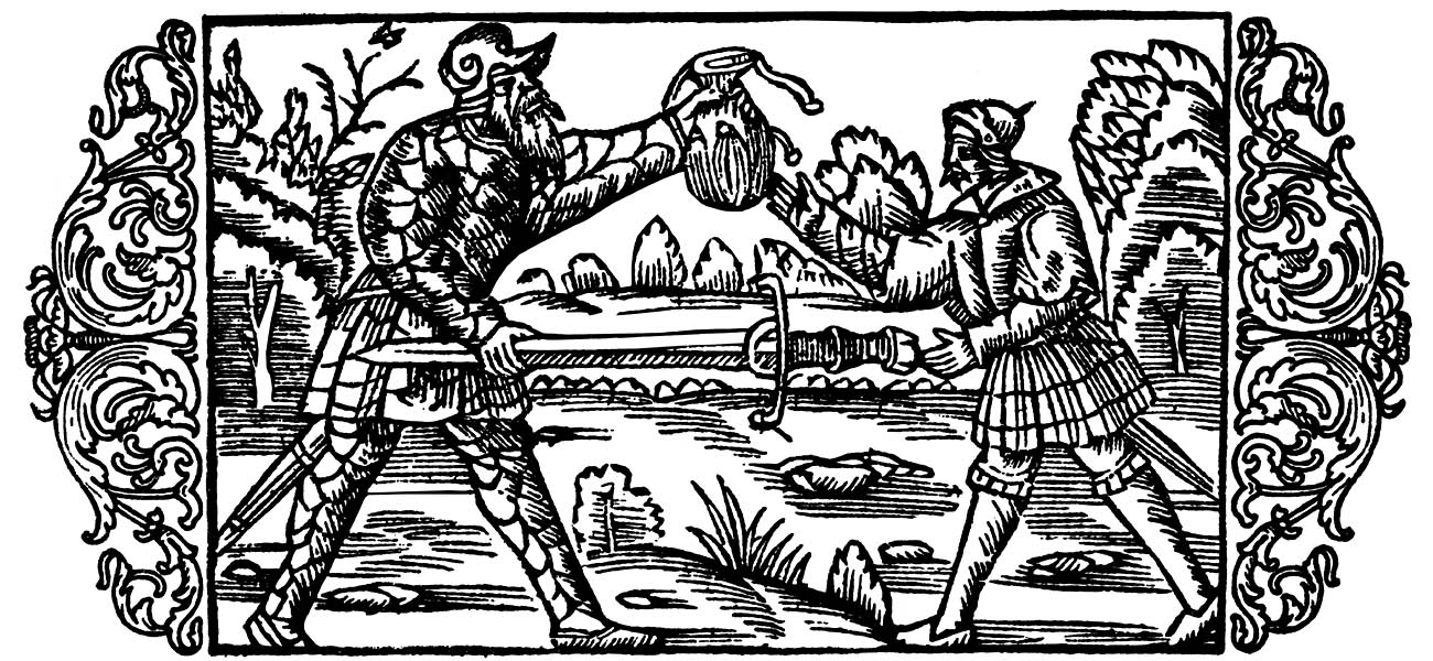 To the left we see Starkaðr, old and tired of living, hands over his sword and an amount of gold to Hather. Starkaðr has once killed Hathers father. Now Starkater persuades Hather to kill him. From Olaus Magnus' "Historia de gentibus septentrionalibus".